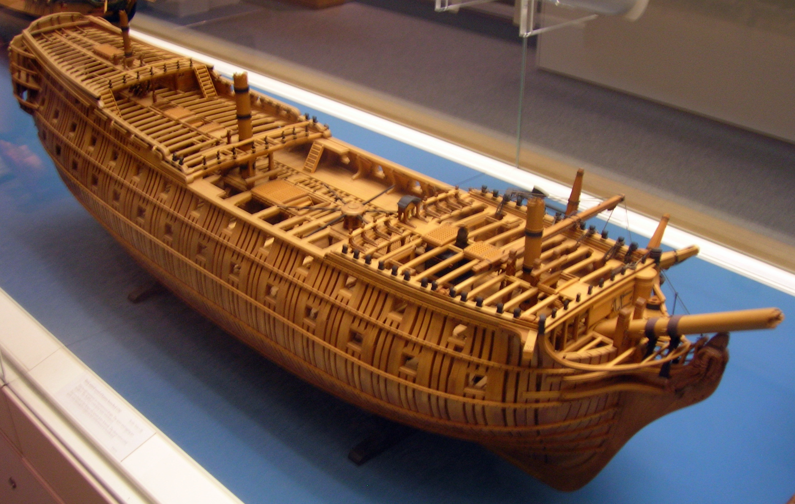 Model of HMS Egmont, 74-gun ship, 3rd rate, launched 1768.